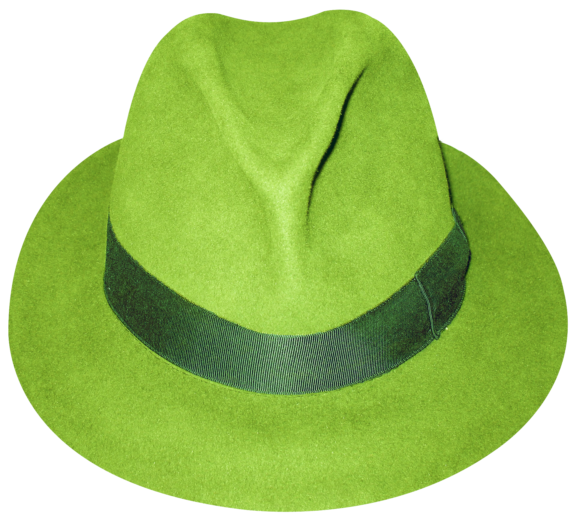 File:Hatt2.png (user:EVula) in green by me (user:Elem1)